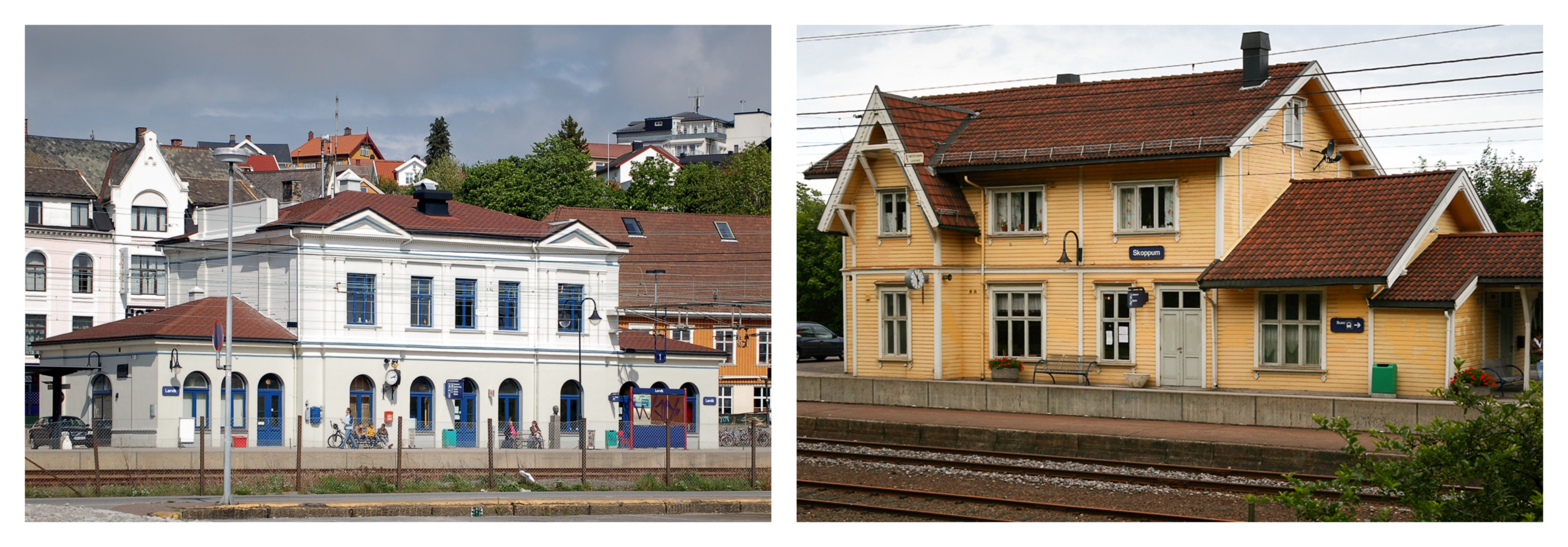 Train stations of Vestfoldbanen / Jarlsberg Line: Larvik and Skoppum. The Larvik station building represents the classical, european inspired architecture while the Skoppum station building is typical for rural vernacular architecture for smaller stations. Both buildings were designed by the Norwegian architect Balthazar Lange.